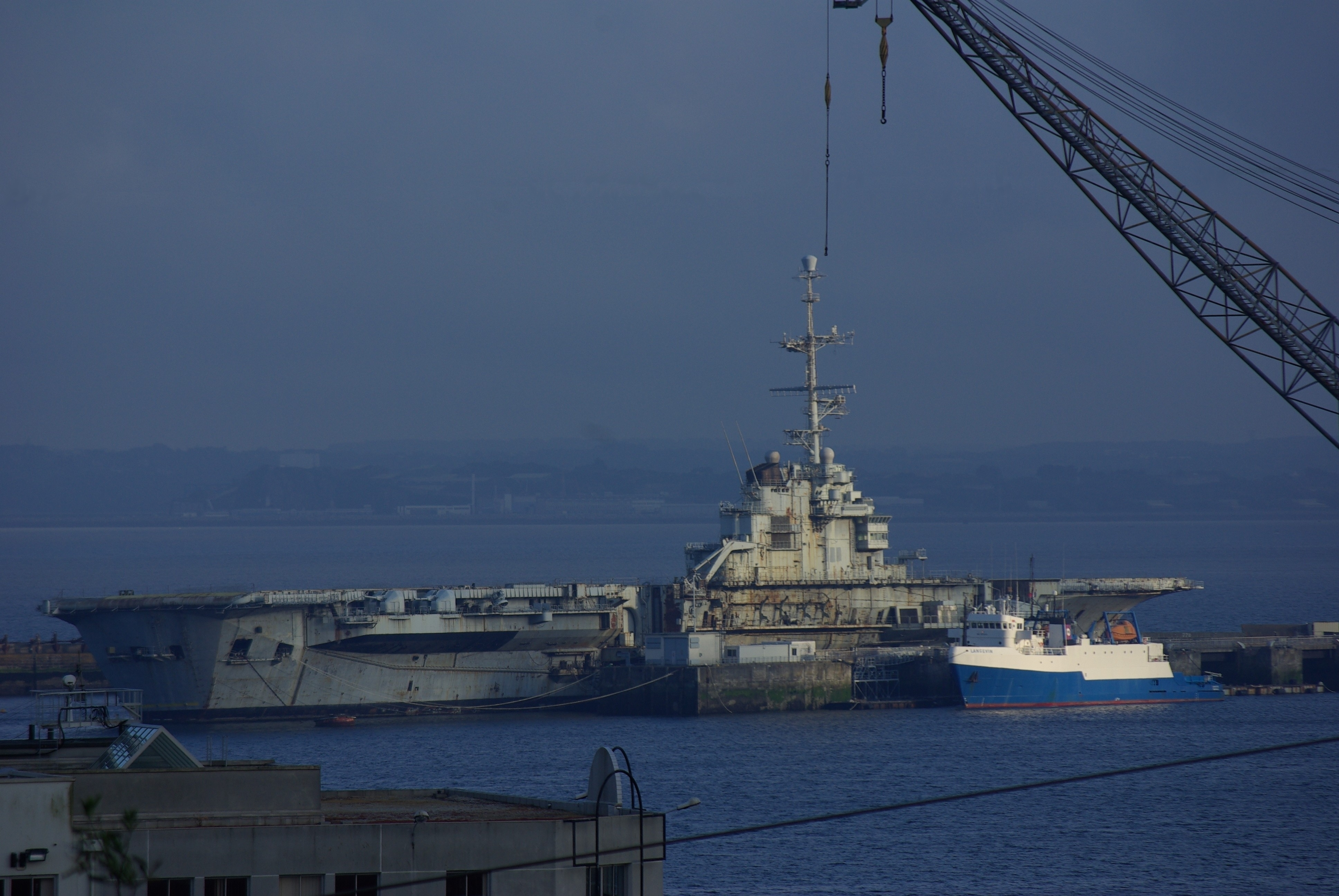 Hull of the old french aircraft carrier Clémenceau (R98) in the harbour of Brest